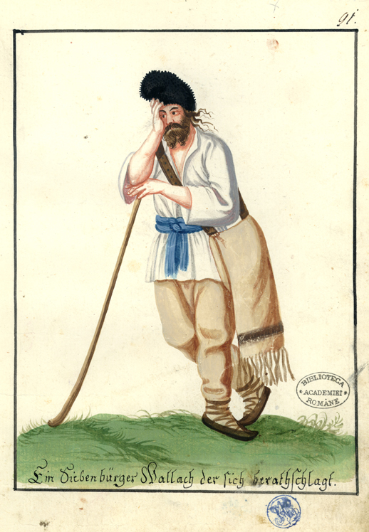 From Trachten-Kabinett von Siebenbürgen album. Drawn in 1729, based on the 1692 watercolours of an artist from Graz Given to the Romanian Academy by Baron Ludovic Czekelius of Rosenfeld. Ein Siebenbürger Wallach der sich berathschlagt